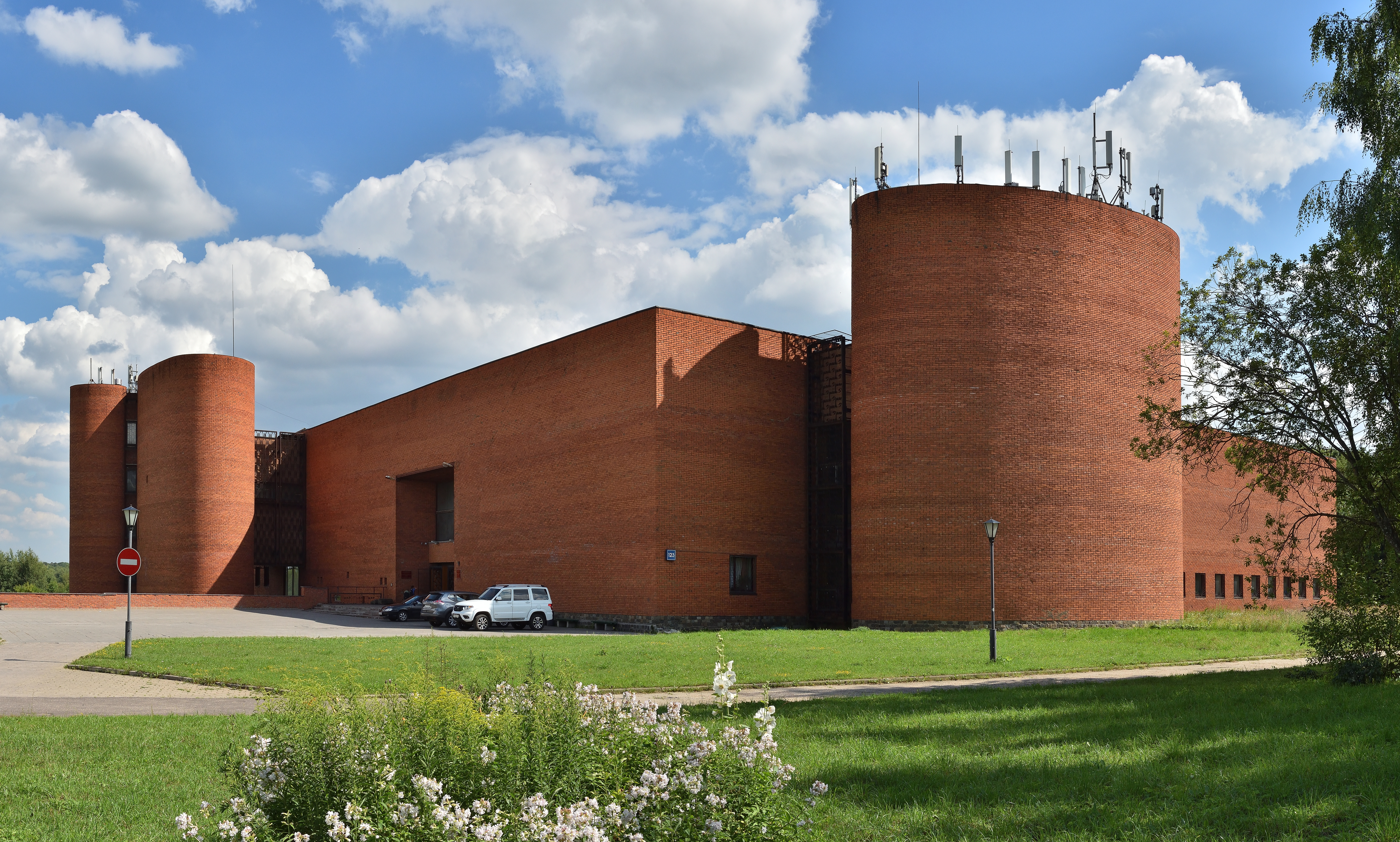 Paleontological Museum building, Moscow, Russia